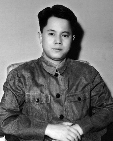 Fang Yi, former Chinese Vice Premier and President of Chinese Academy of Sciences